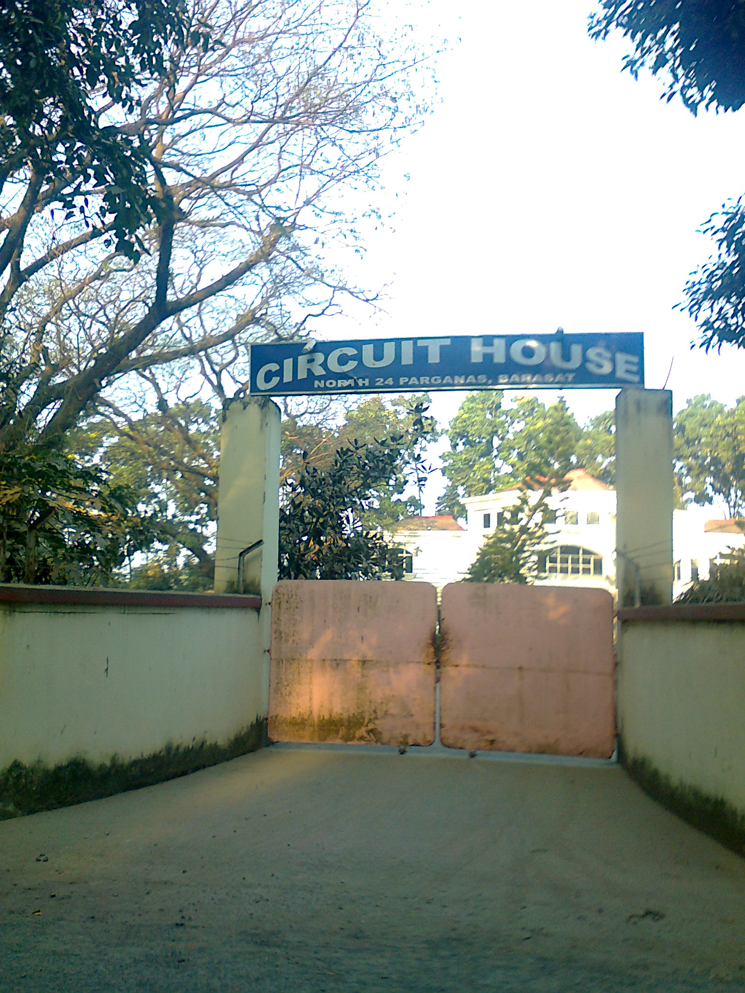 Barasat Circuit House, West Bengal, India